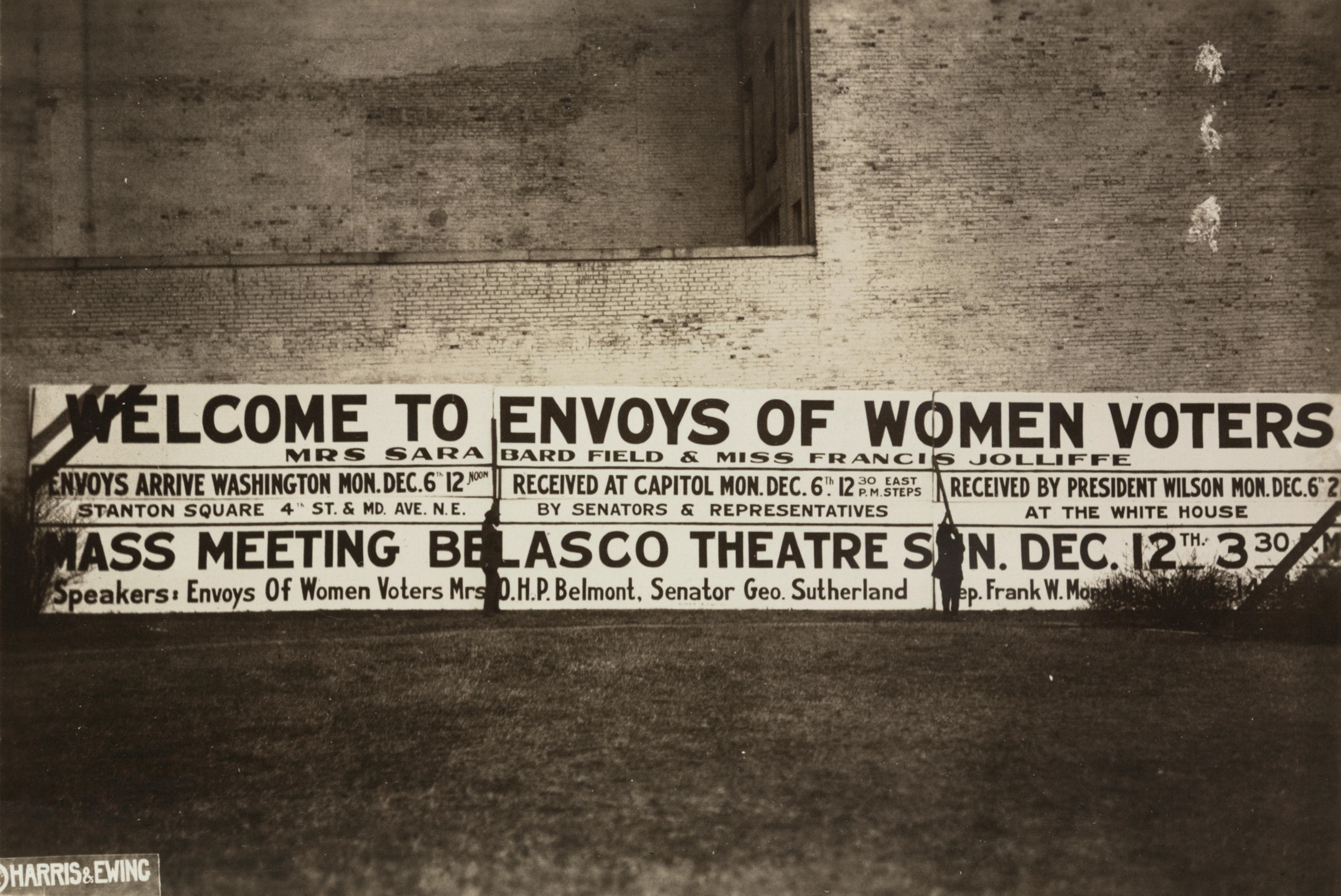 Summary: Photograph of billboard signs on brick wall welcoming arrival of Congressional Union automobile envoys in Washington, D.C.: "Welcome to envoys of women voters. Mrs. Sara Bard Field & Miss Francis Jolliffe. Envoys arrive Washington Mon. Dec. 6th 12 noon, Stanton Square 4th St. & MD. Ave. N.E. Received at Capitol Mon. Dec. 6th 12:30 P.M. East Steps by Senators & Representatives. Received by President Wilson Mon. Dec. 6th 2 P.M. at the White House. Mass Meeting Belasco Theatre Sun. Dec. 12th 3:30 P.M. Speakers: Envoys of Women Voters Mrs. O.H.P. Belmont, Senator Geo. Sutherland, Rep. Frank. W. [last name obscured]."